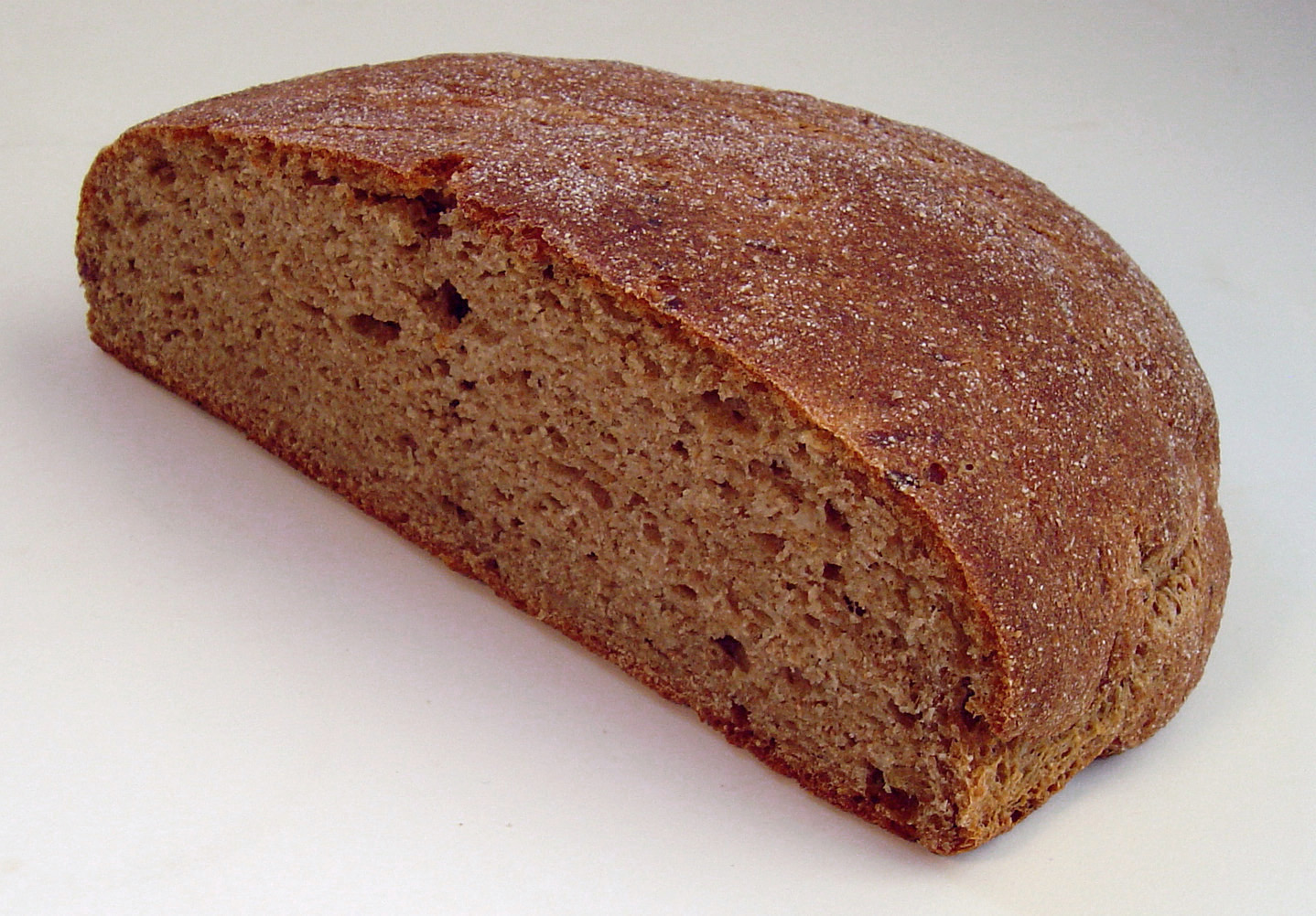 Half a loaf of homemade potato bread. Ingredients: Organic Whole Wheat Flour, Organic Red Potatoes, Yeast, Salt and Organic Cane Sugar